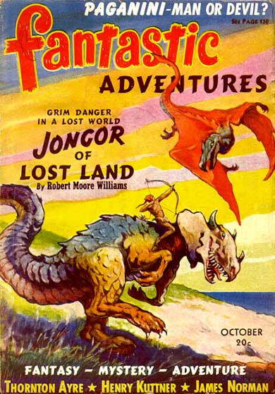 Cover of October 1940 issue of Fantastic Adventures. Artist is J. Allen St. John. Copyright was either St. John, or more likely Ziff-Davis, who published the magazine.